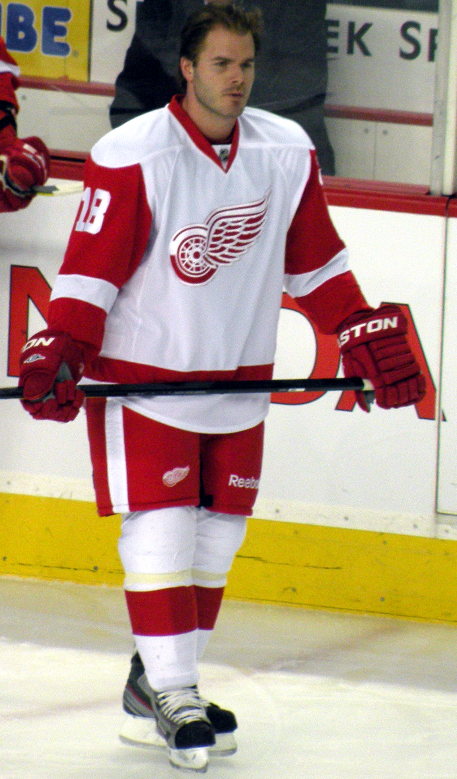 Detroit Red Wings defenceman Ian White prior to a National Hockey League game against the Calgary Flames.